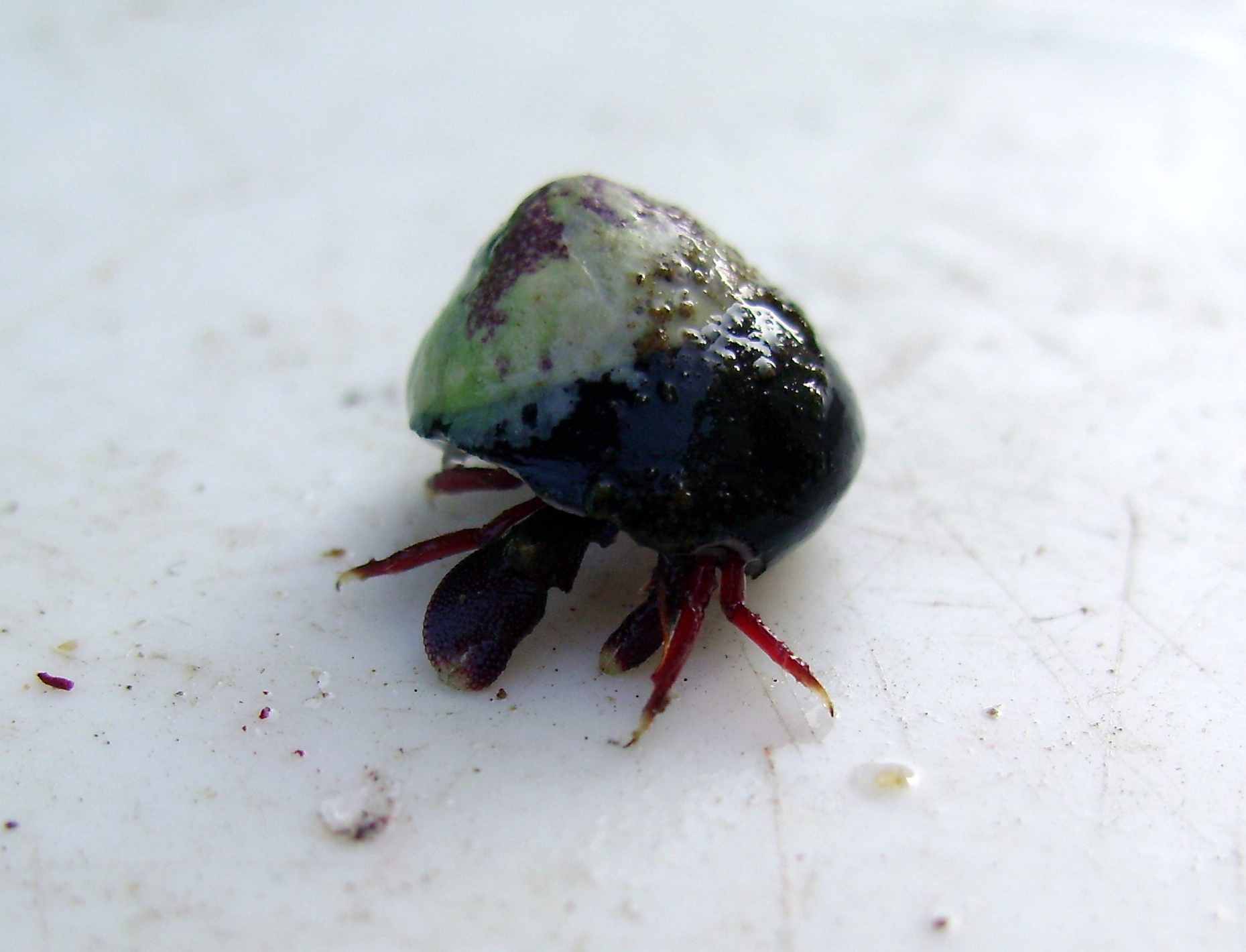 Pagurus edwardsii specimen found in center-North of Chile.